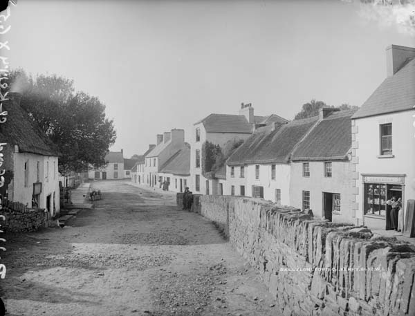 Photograph taken between 1880 and 1900 Format: glass negative Part of: National Library of Ireland Lawrence Collection. For more photographs in this collection see National Library of Ireland catalogue: Reference number: L_ROY_06632